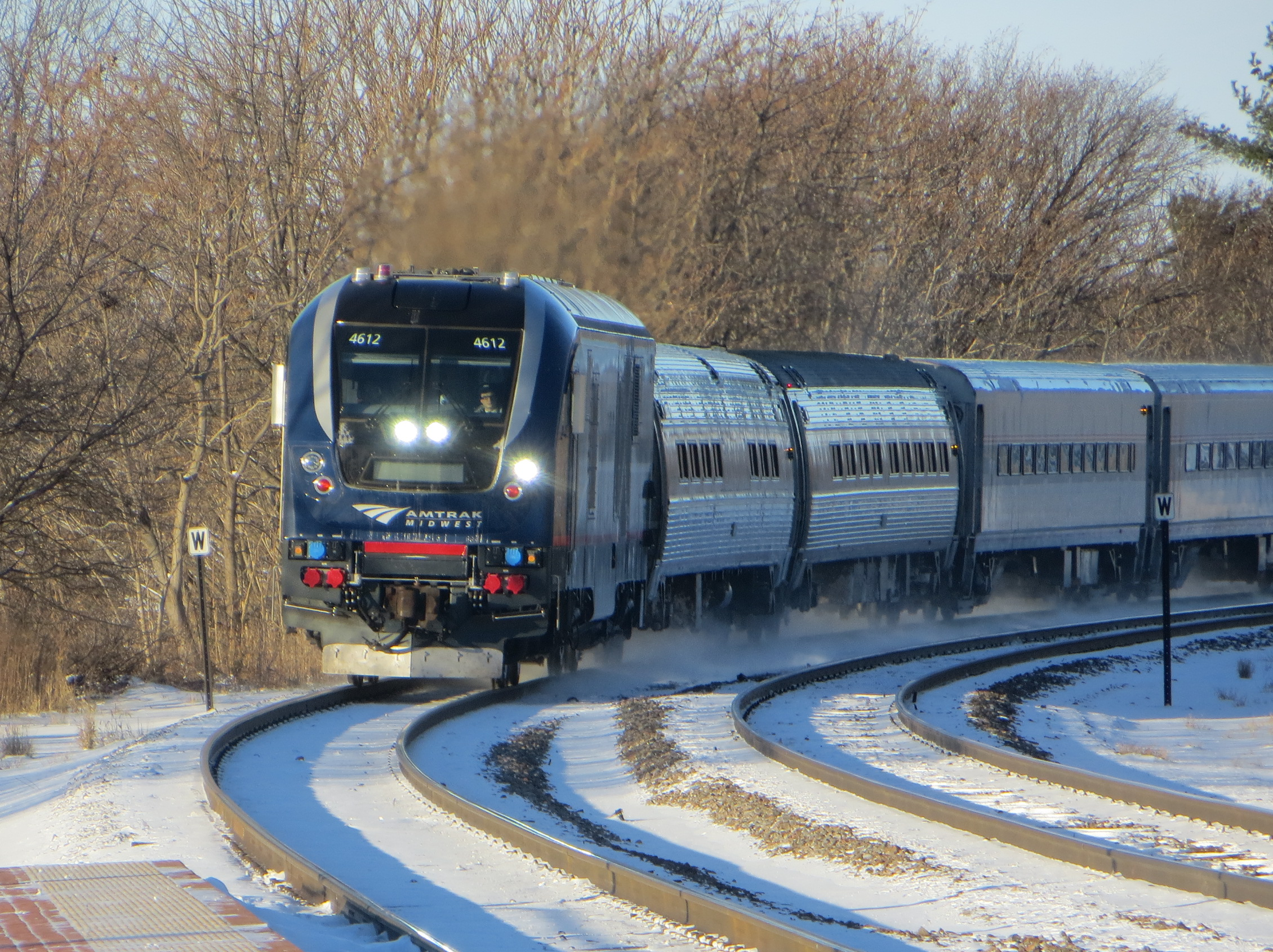 The eastbound Illinois Zephyr arriving at Princeton station in December 2017